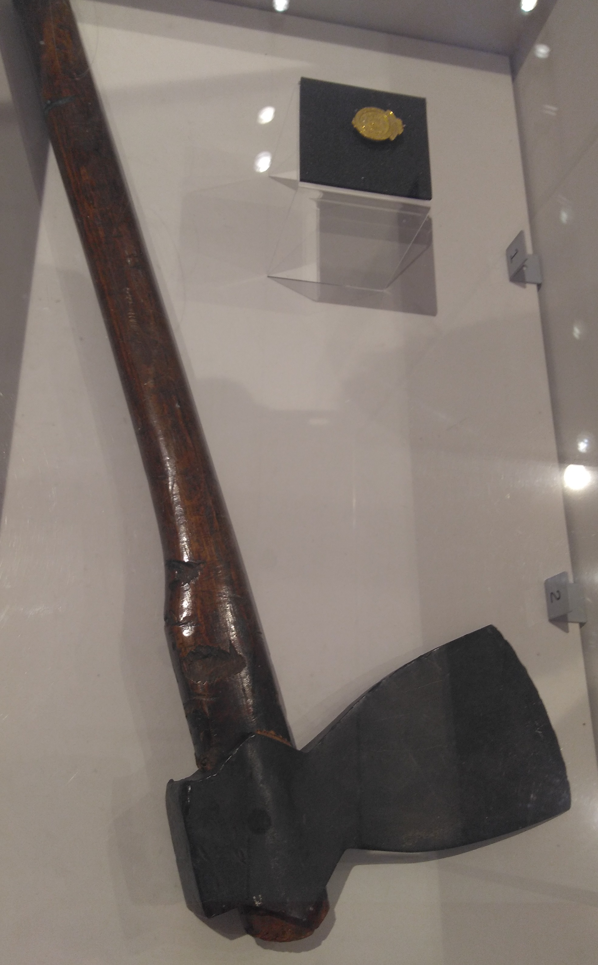 Axe used by landing party from German light cruiser SMS Emden to cut submarine telegraph cables on Direction Island, Cocos Islands, in 1914. Displayed at Porthcurno Telegraph Museum. Also in top right corner is a lapel badge of the Eastern Telegraph Company from the same era.